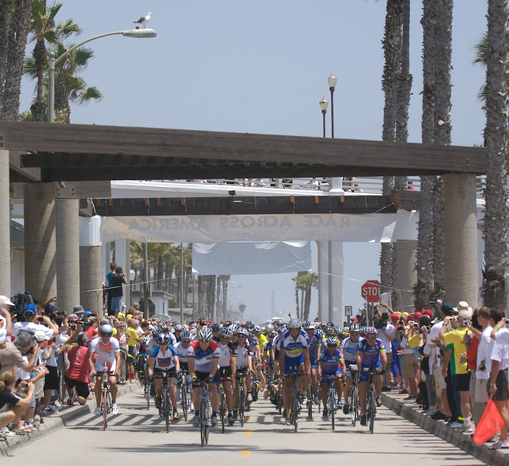 Start of the Race Across America 2007 in Oceanside